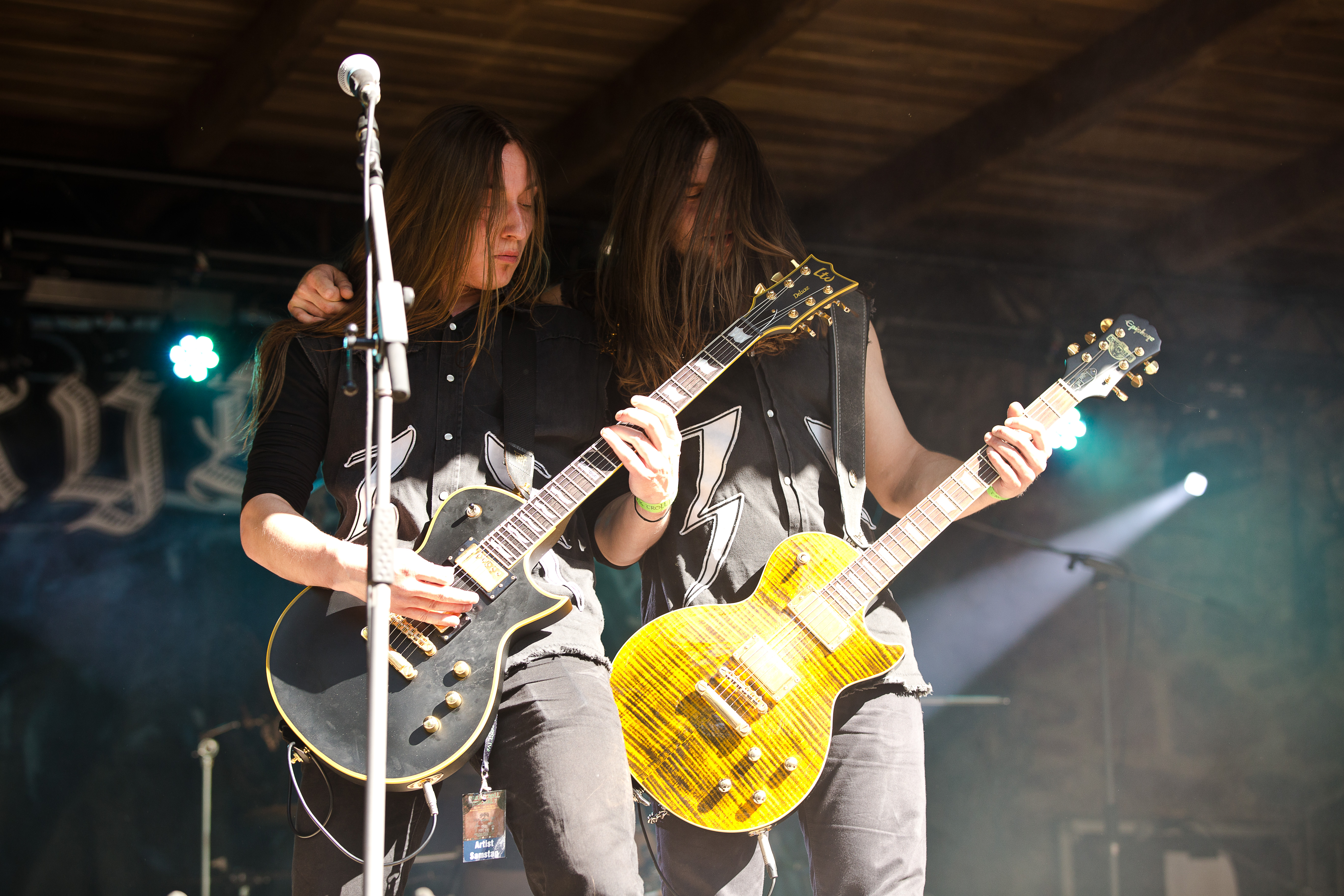 The German melodic death metal band Strydegor at the Dark Troll Open Air 2016 in Bornstedt/Germany.